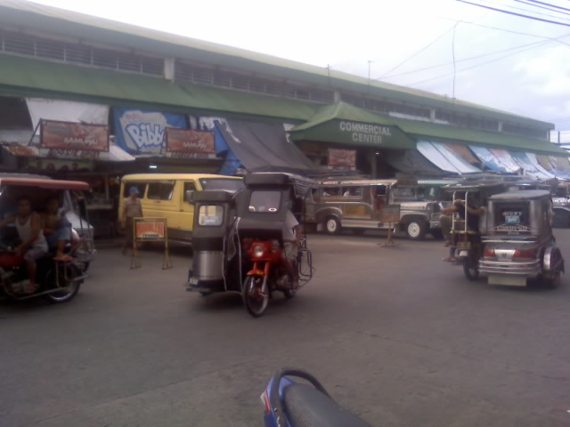 Santa Cruz Laguna Philippines viewed from Regidor Street